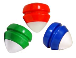 Trompos for children. Smart top.